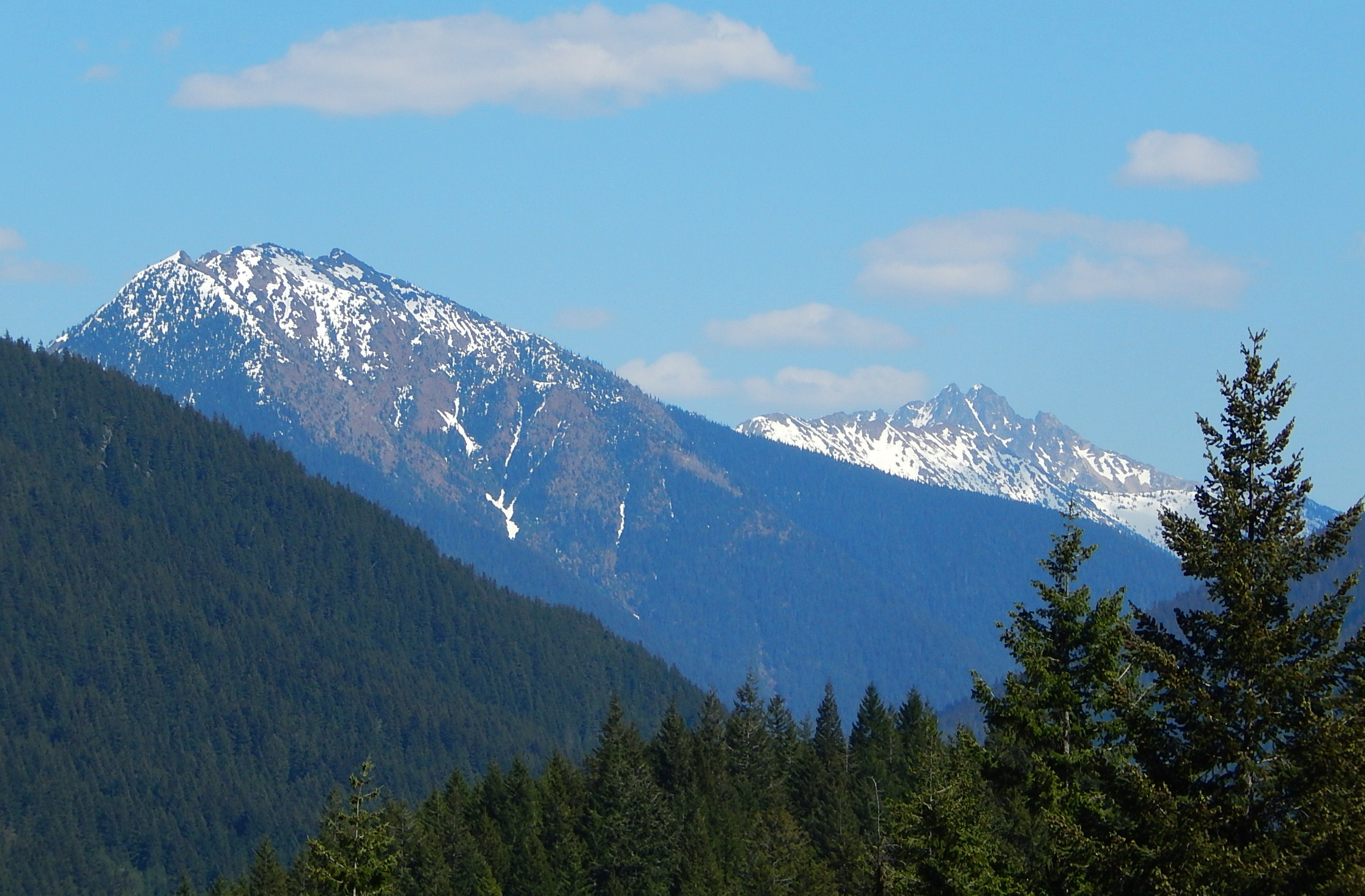 McKay Ridge 7020' and Azurite Peak seen from North Cascades Highway using long lens